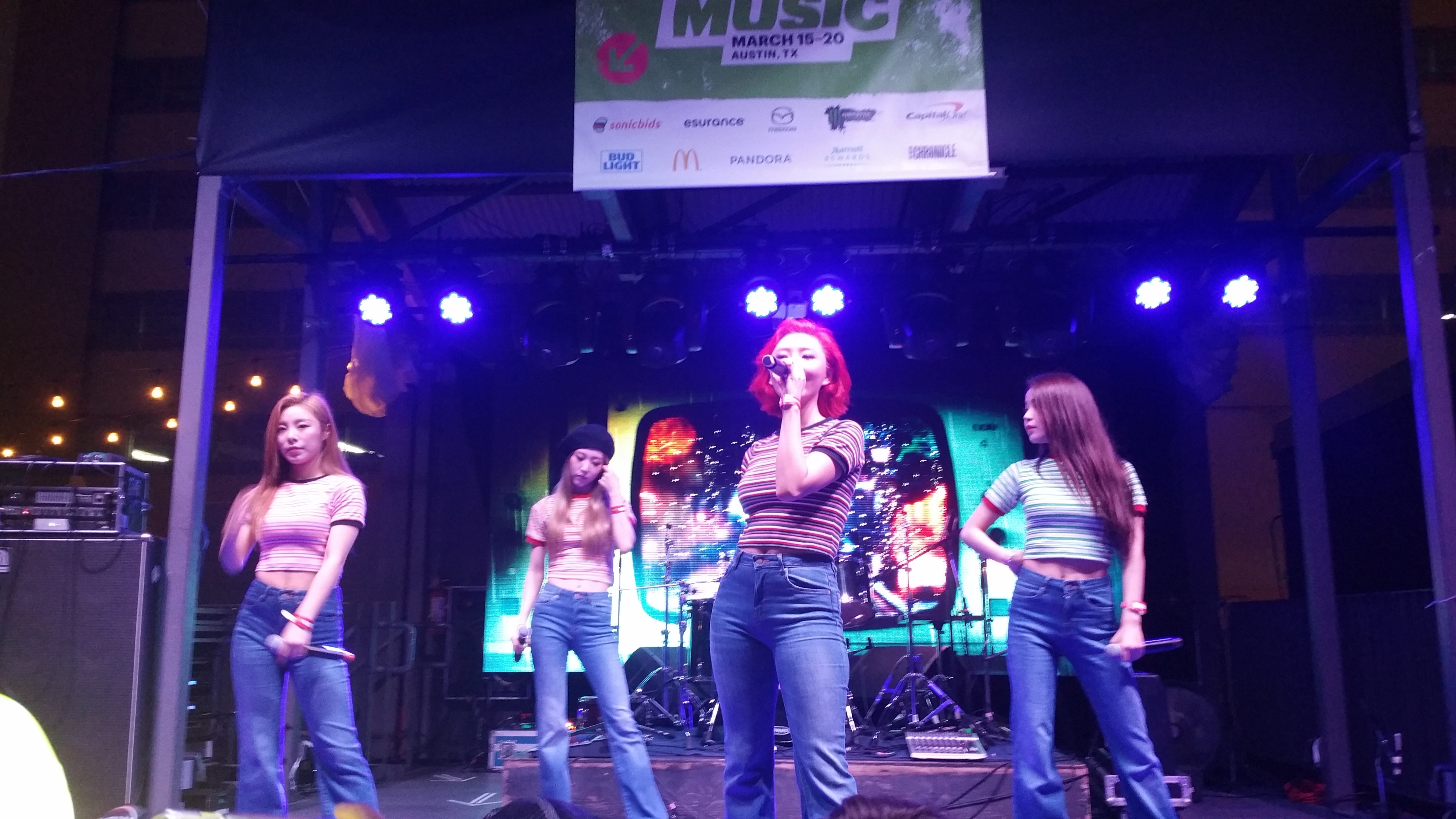 KPNO SXSW 2016, The Belmont, Austin, Texas, (Mamamoo).